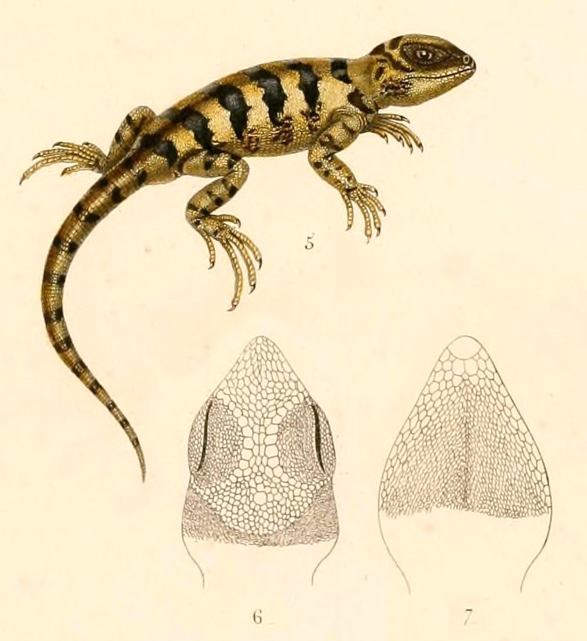 « Leiosaurus fasciatus » = Pristidactylus fasciatus (D'Orbigny's Banded Anole)